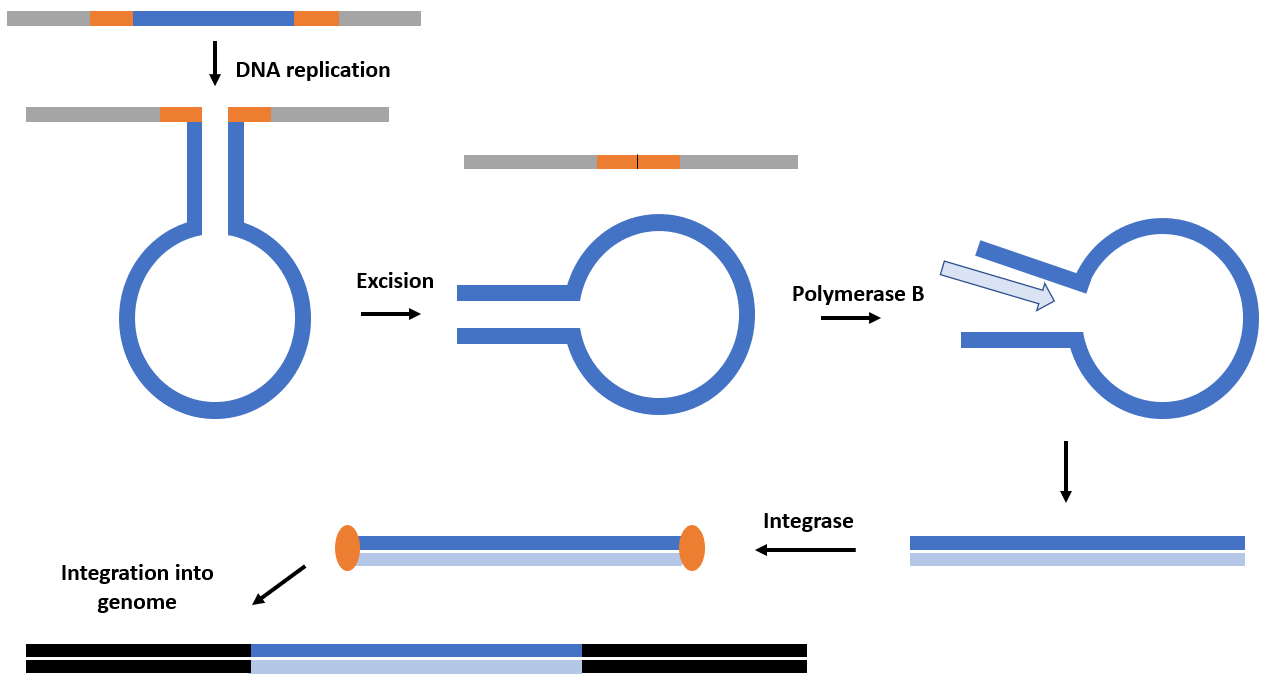 Proposed mechanism for transposition of self-synthesizing Polinton